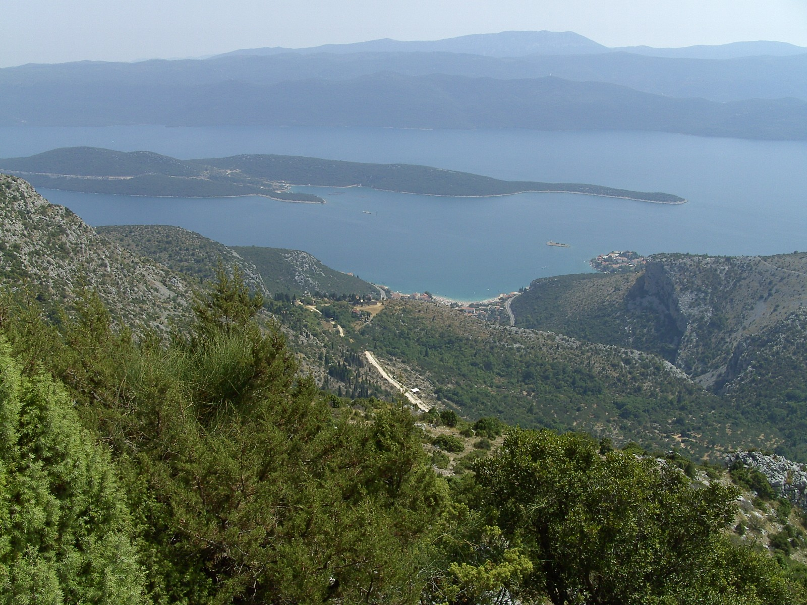 Klek tourist resort in Croatia